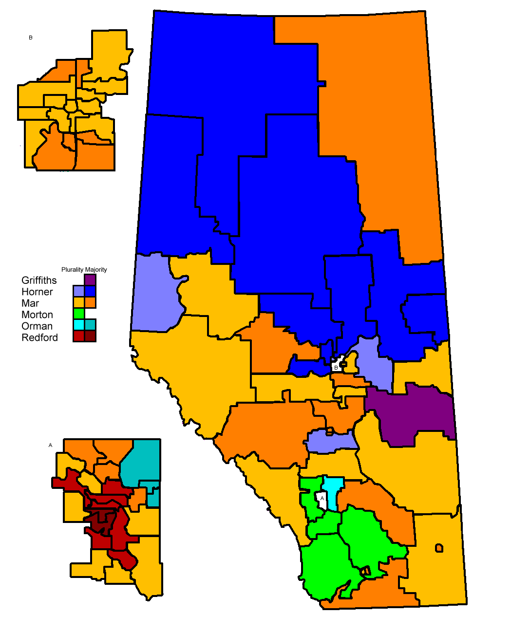 Map showing results of 2011 Alberta PC leadership race, Round 1 (September 17) Based on public domain image Alta2004.PNG by Earl Andrew